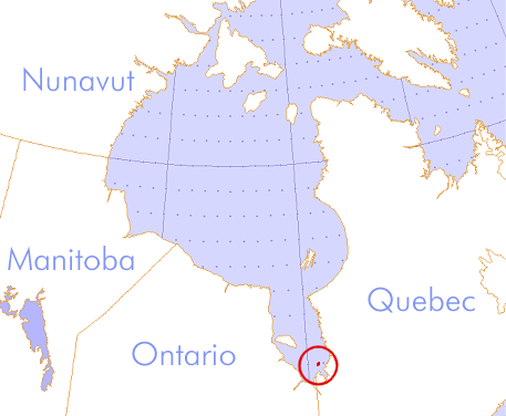 Location of Charlton Island